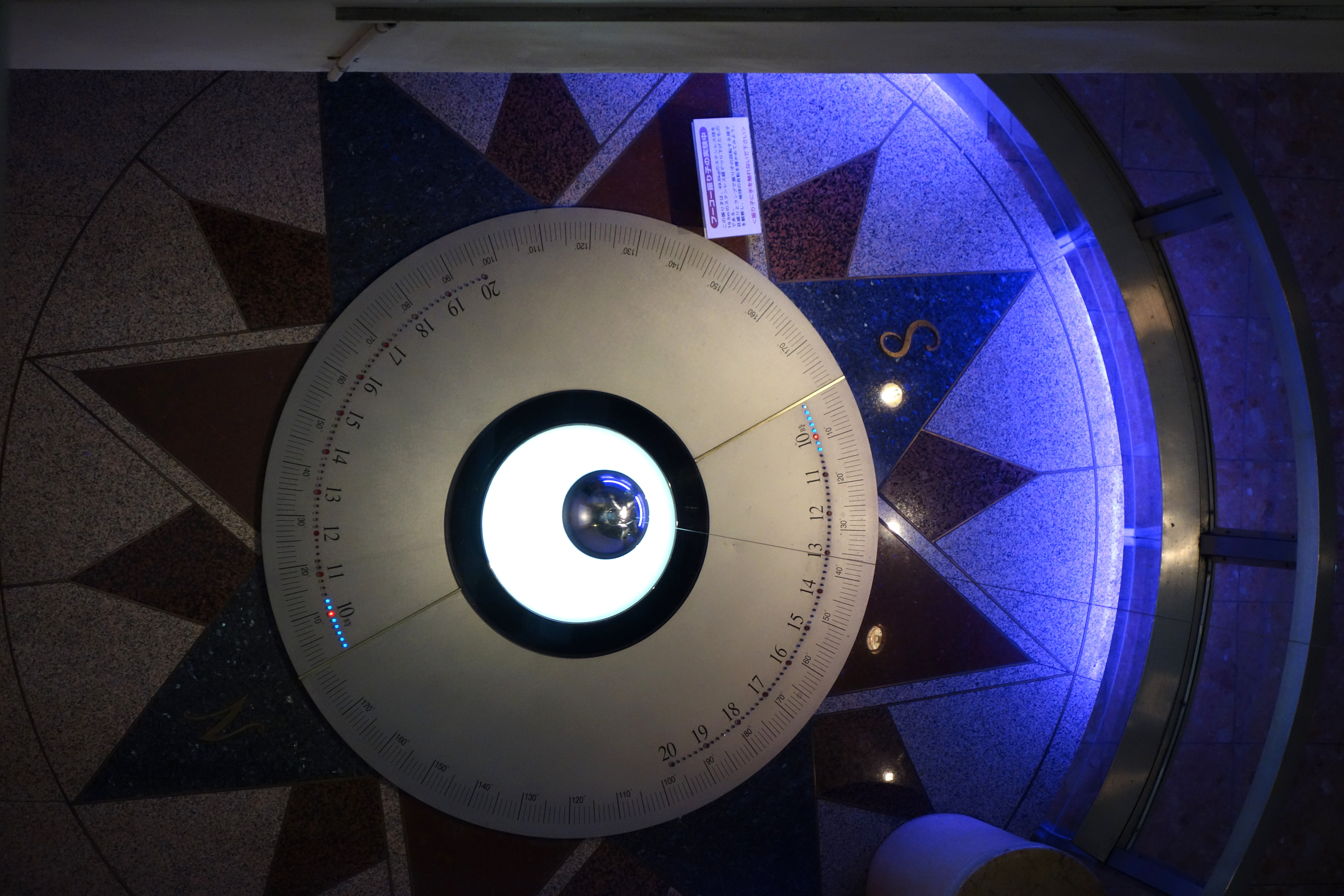 Exhibit in the National Museum of Nature and Science, Tokyo, Japan.